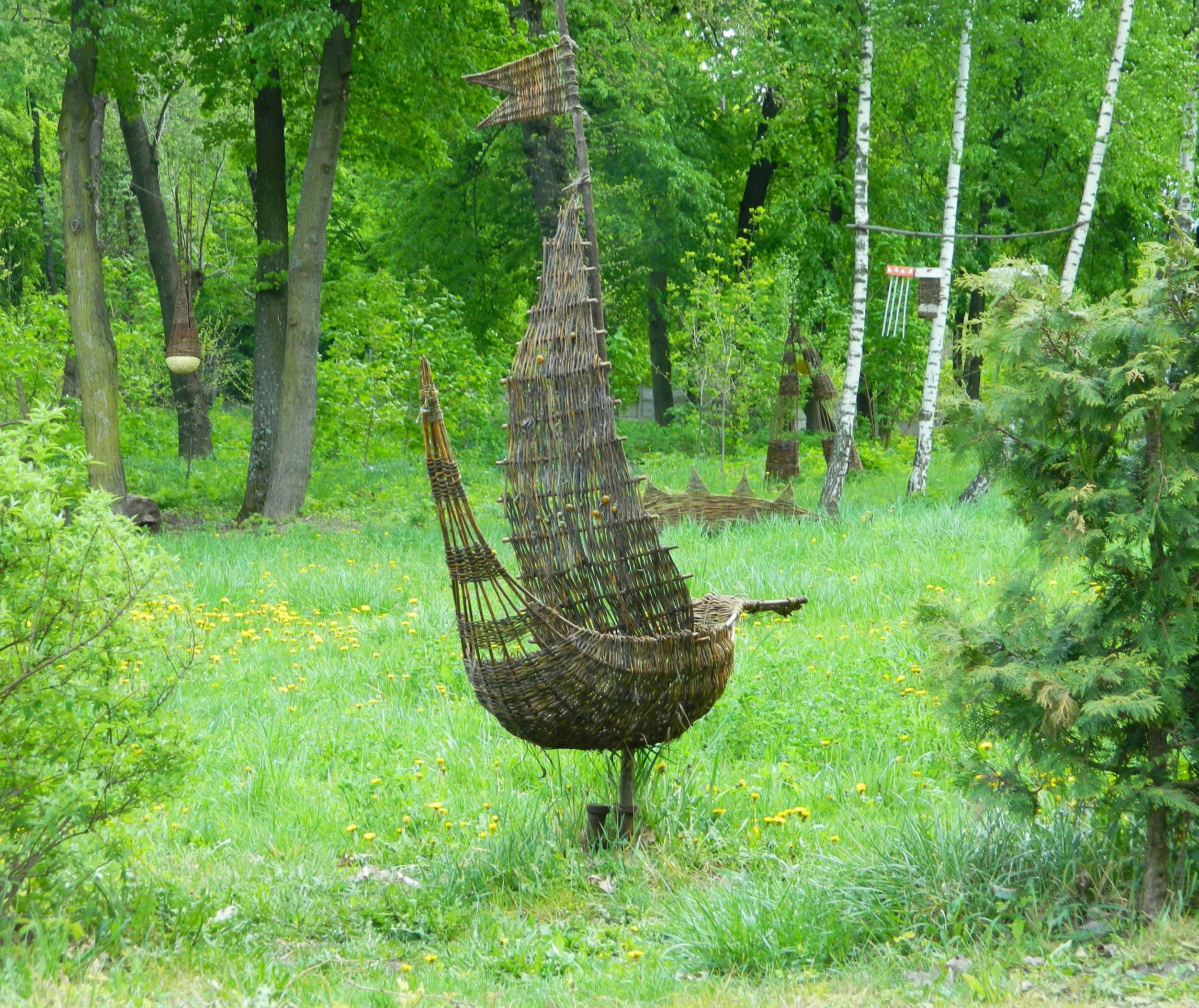 Ukraine. Kyiv. National ecological and naturalistic center of school student. School of Folk Crafts. Small Form 2